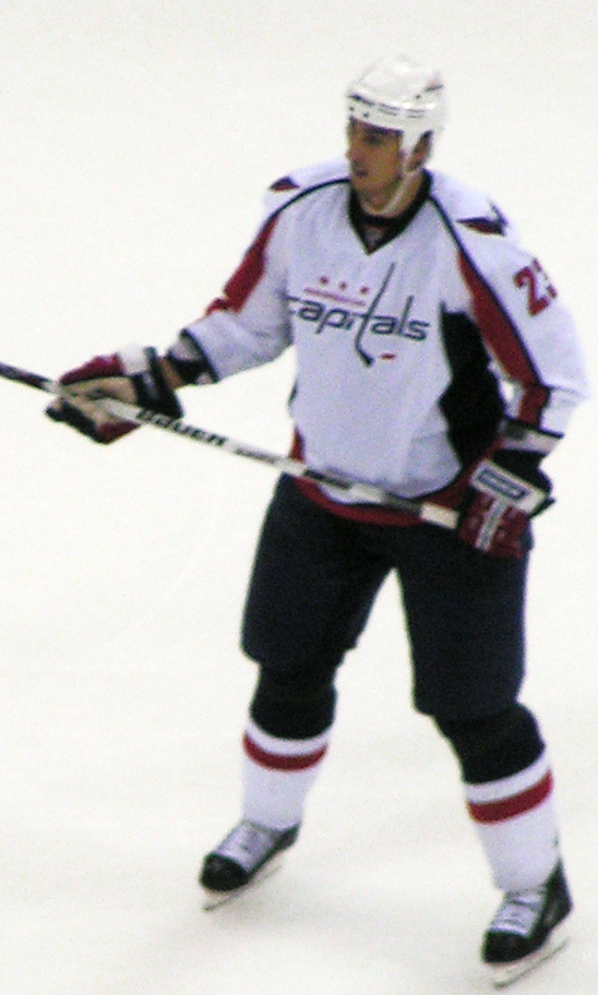 Milan_Jurcina waiting for faceoff